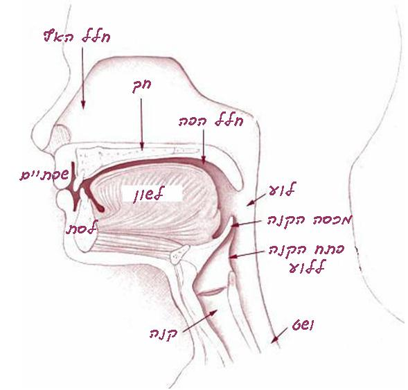 Head and Neck Overview